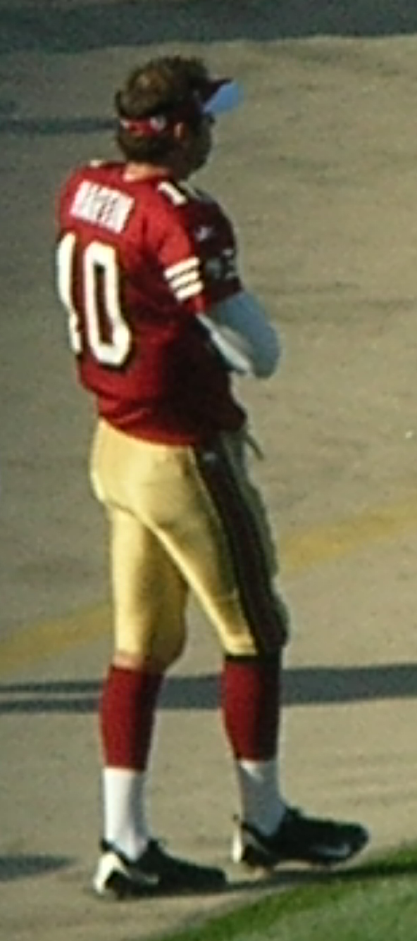 San Francisco 49ers quarterback Jamie Martin during a regular season game against the St. Louis Rams. The 49ers won 35-16.